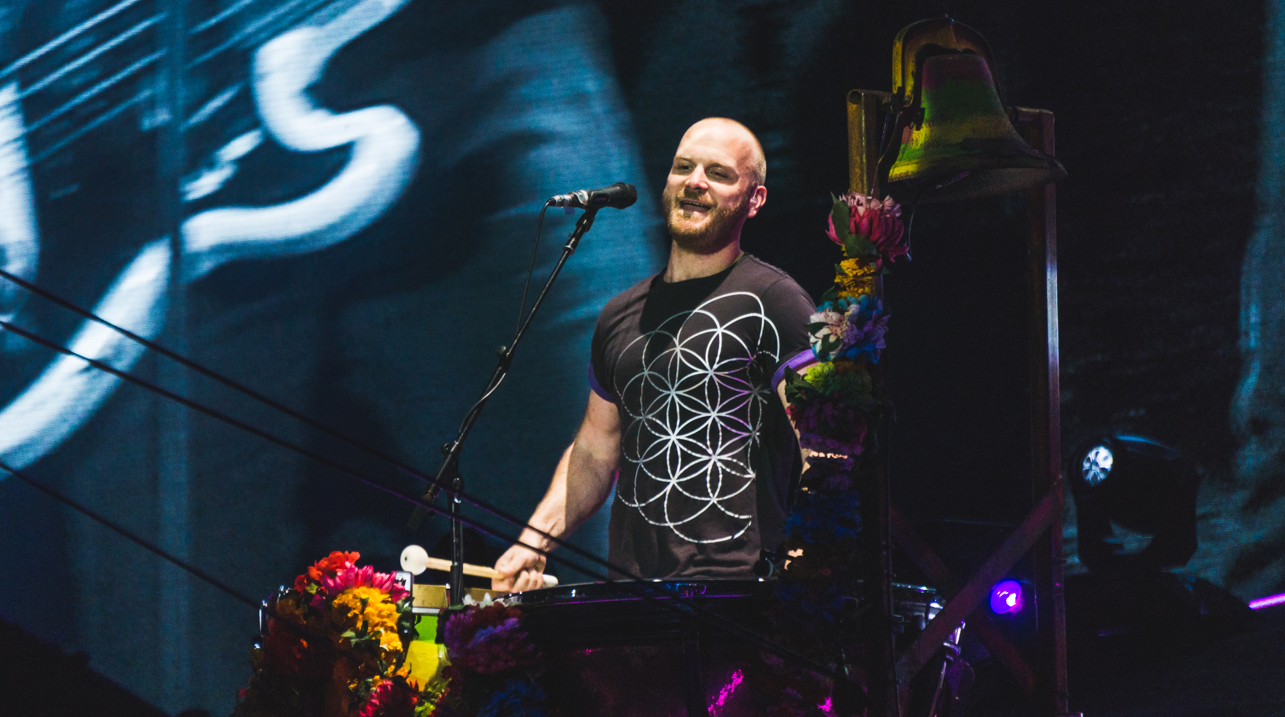 ColdplayRoseBowl061017-41